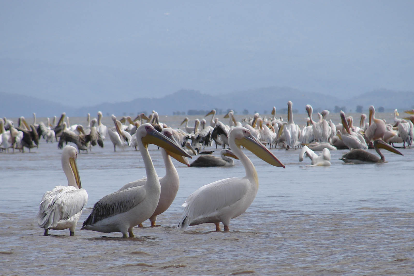 Pelicans at Lake Chamo (Ethiopia)